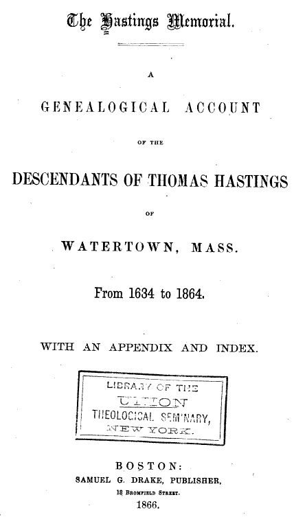 Frontispiece of The Hastings Memorial, A Genealogical Account of the Descendants of Thomas Hastings of Watertown, Massachusetts, from 1634 to 1864. Written by Lydia Nelson Hastings Buckminster, and published at Boston by Samuel G. Drake, 1866